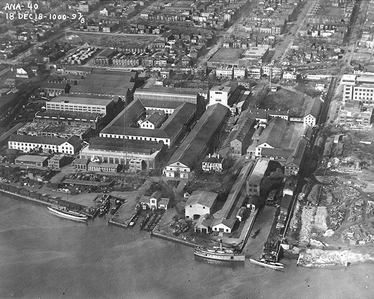 Aerial view of the main part of the Washington Navy Yard, looking north (and a little west) from over the Anacostia River, 18 December 1918. *Photographed from a Naval Air Station Anacostia airplane. Note construction work in the Yard's eastern extension, to the right. Ferry steamer Boothbay (ID # 1708), which was later renamed Grampus, is in the lower right center, with USS Shuttle (ID # 3572) immediately off her bow (further to the right).